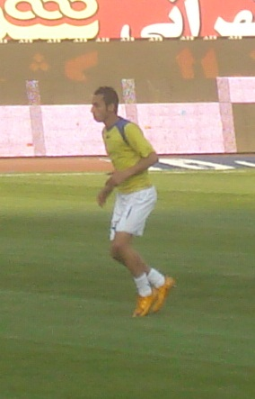 Mohammad Nozhati, Persepolis-Malavan match, 2012-13 Iran Pro League